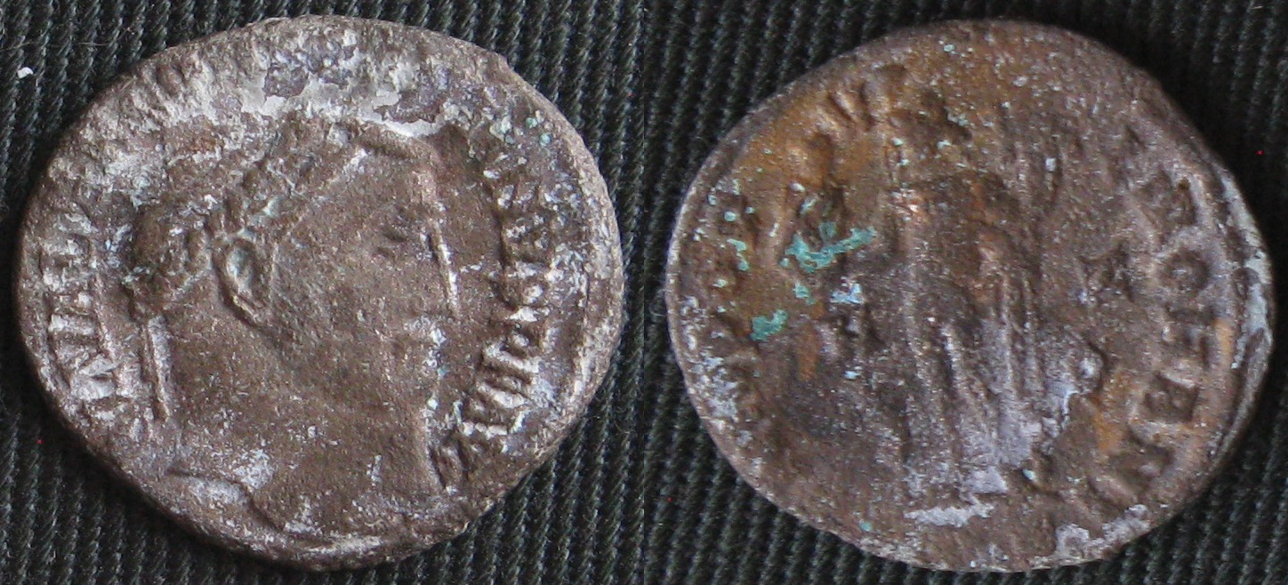 The coin had been immersed in an approximately 3% sodium sesquicarbonate/2% sodium bicarbonate w/v solution for four weeks to treat bronze disease. It had been rinsed four times previously and surface water patted off with the same crystallisation observed due to carbonates having infiltrated the coin's surface. While unsightly it is not harmful to the coin. It can be brushed off but will reform over time. With continued soaking in water the carbonate will eventually be removed and the coin can be displayed or be coated with a surface sealant. The green mass on the coin's reverse is a copper carbonate that formed in the region where the bronze disease was most prevalent. It will be physically removed to ensure that the chlorides have also been removed prior to further conservation efforts. The photos were taken some 20 minutes after rinsing and surface drying. Video footage of the crystallisation is also on wikipedia: Carbonate crystals forming on ancient bronze coin.ogg